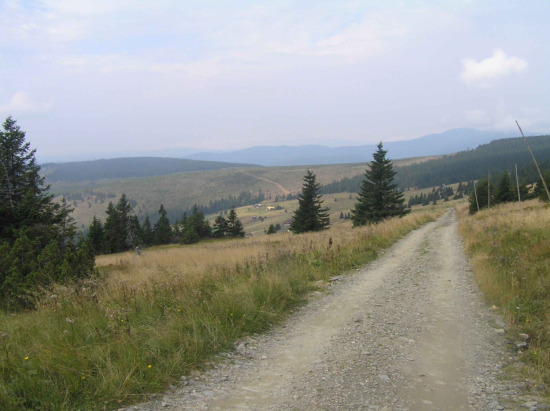 Klínové boudy and the hill Přední planina (back), Krkonoše, Czech Republic